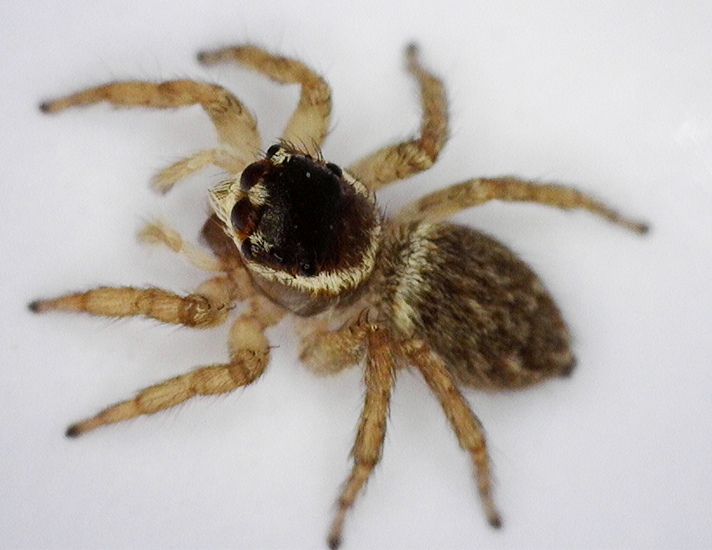 White-banded House Jumping Spider (Hypoblemum griseum). Species of spider.